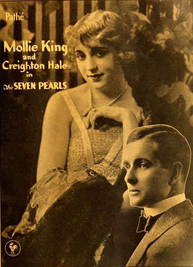 Advertisement in Moving Picture World, Aug 1917 for the film The Seven Pearls (1917).